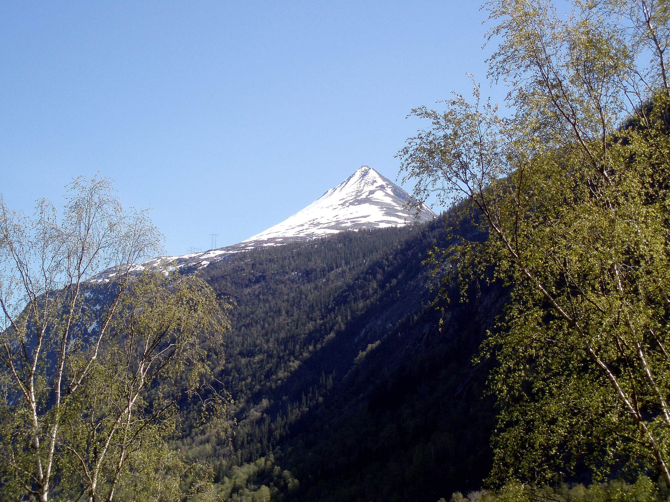 The mountain Gaustatoppen seen from Krossobanen in Rjukan, Norway.